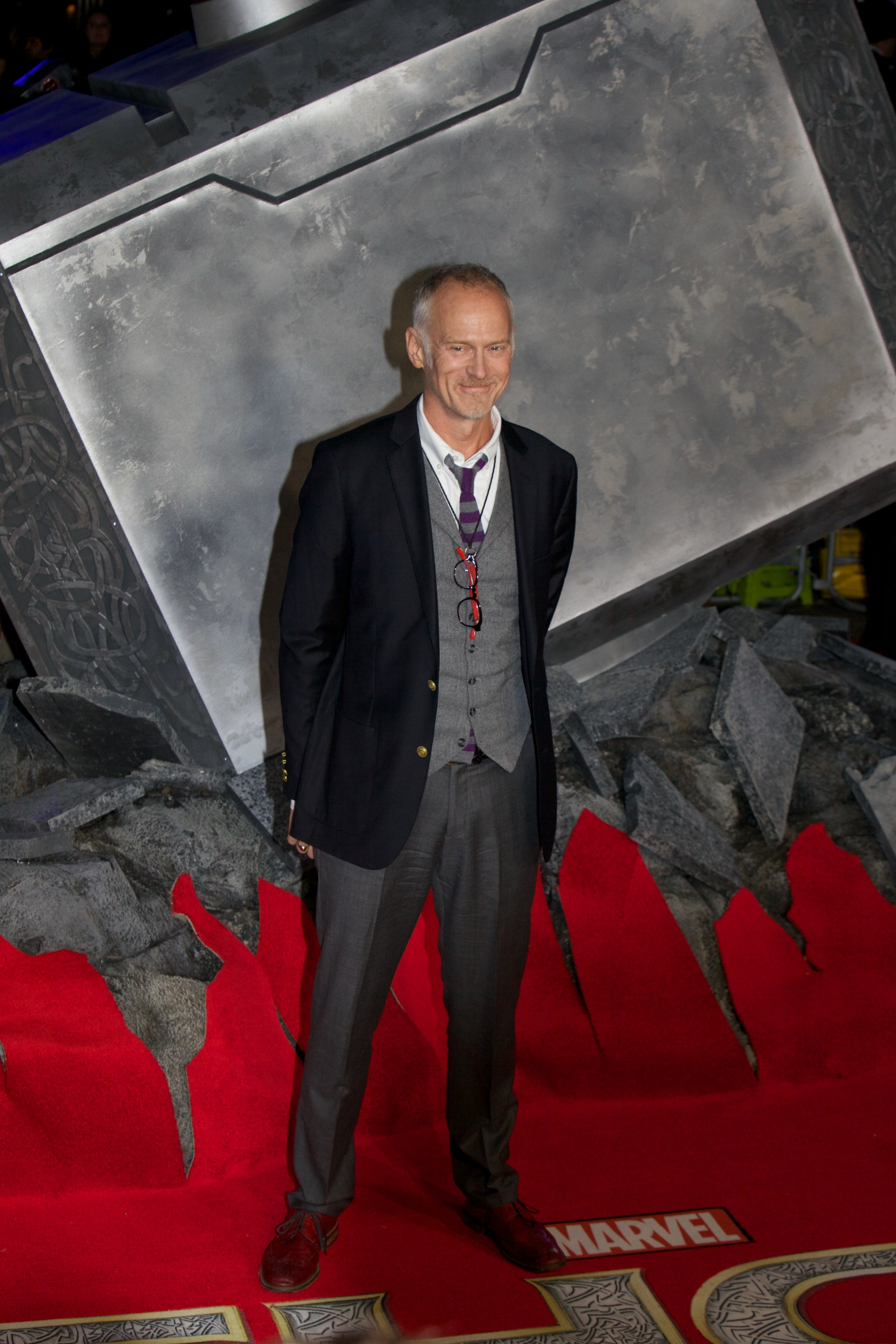 Alan Taylor at the world premiere of Thor: The Dark World.